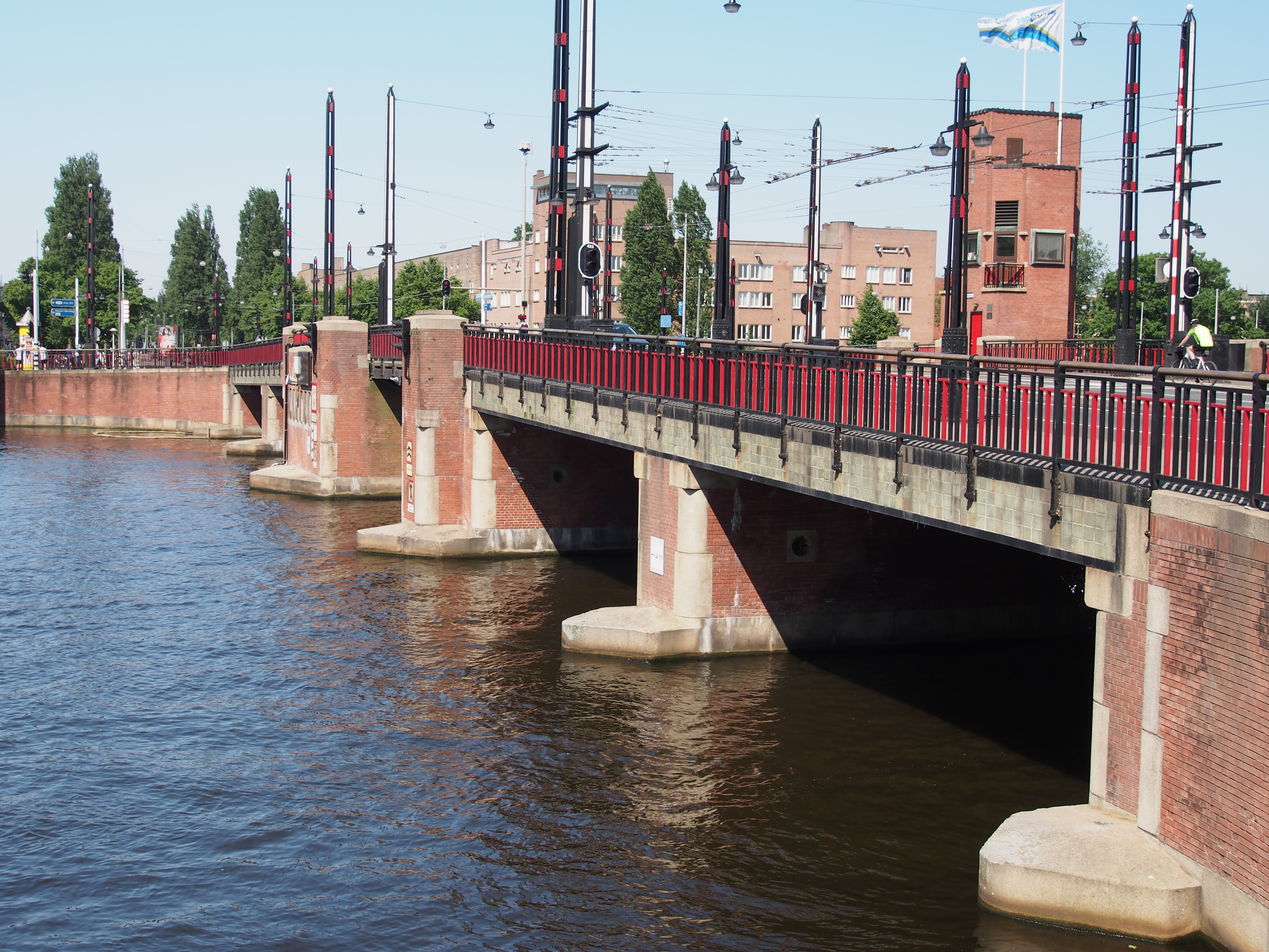 Berlagebrug, Amsterdam.